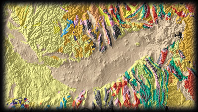 Topo of Snake River Plain